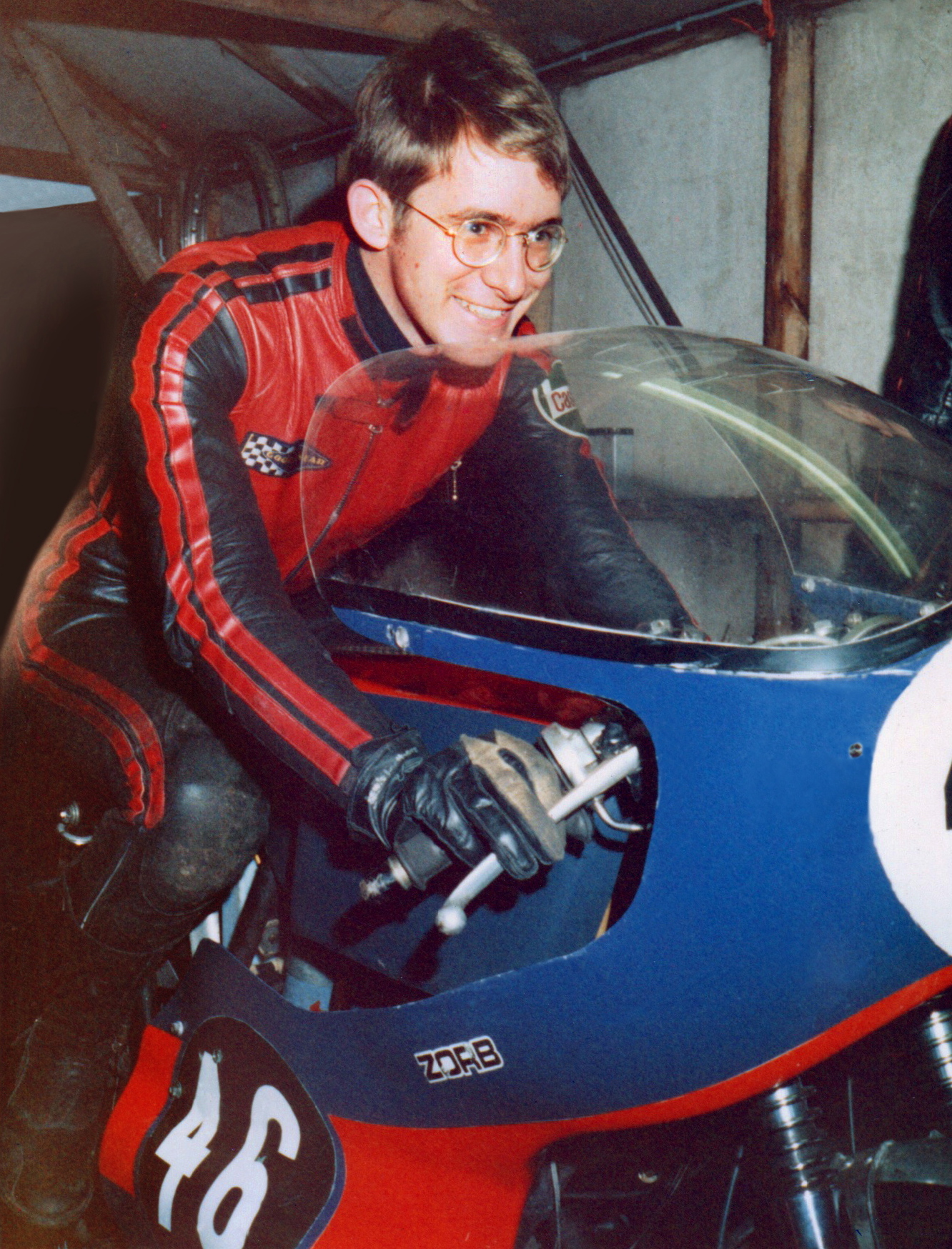 Steven L. Thompson aboard his 350cc Shepherd-Kawasaki racing motorcycle in a a garage near Thetford, Norfolk, England in Oct. 1971